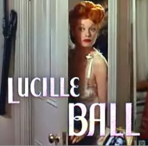 Cropped screenshot of Lucille Ball from the trailer for the film Best Foot Forward